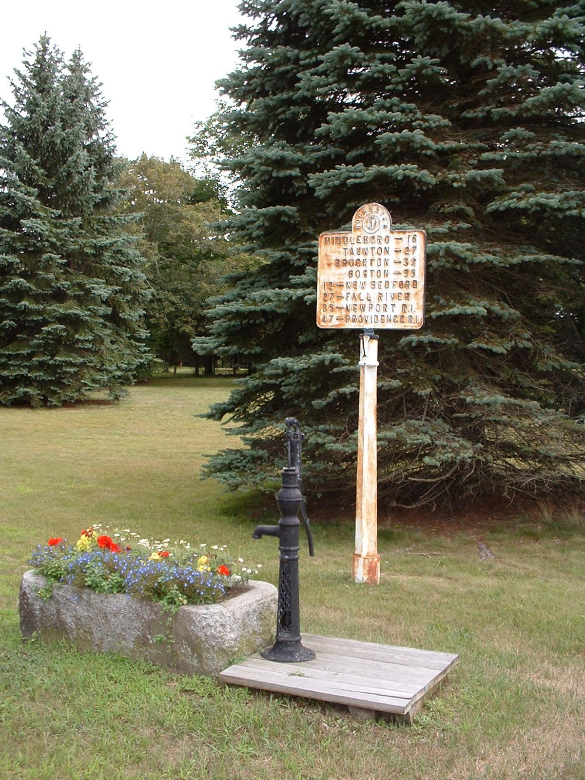 An old road sign and water pump along Route 105 at the Rochester Town Common. The sign reads: Middleboro 16, Taunton 27, Brockton 32, Boston 55 (all pointed north-west); New Bedford 12, Fall River 27, Newport R.I. 35, Providence 47 (all pointed south-west).